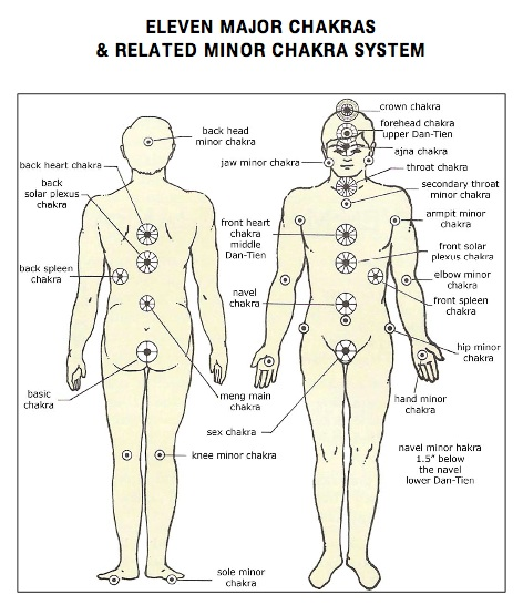 A description of the major chakras and minor chakras in the body. Chakras are energy centers of the subtle body which absorb, digest and distribute prana to the different parts of the body to ensure the proper functioning of the whole physical body and its organs.